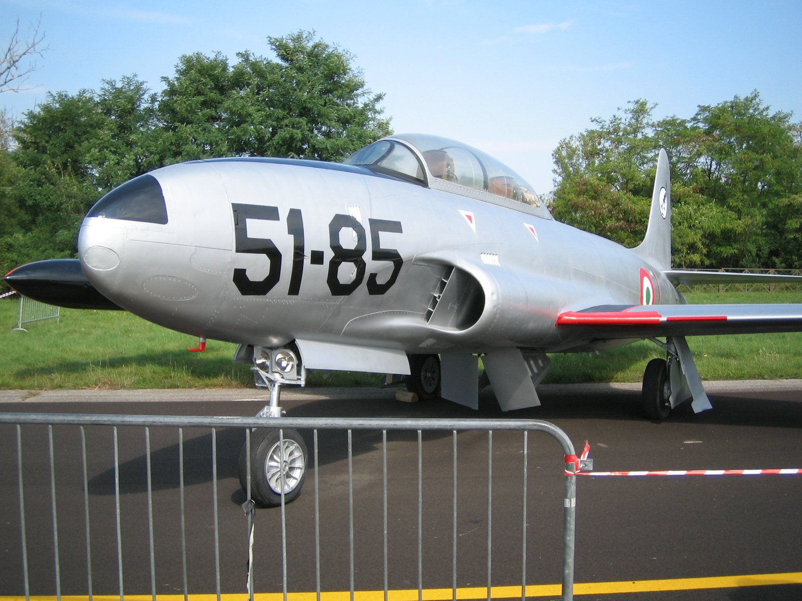 Lockheed T-33A of Italian Air Force